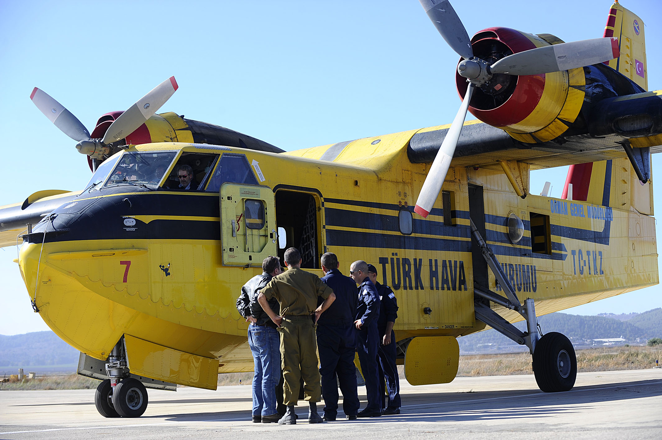 A Turkish Aeronautical Association Canadair CL-215 arrives at Ramat David IAF Base to help support efforts in fighting the Mt Carmel fires